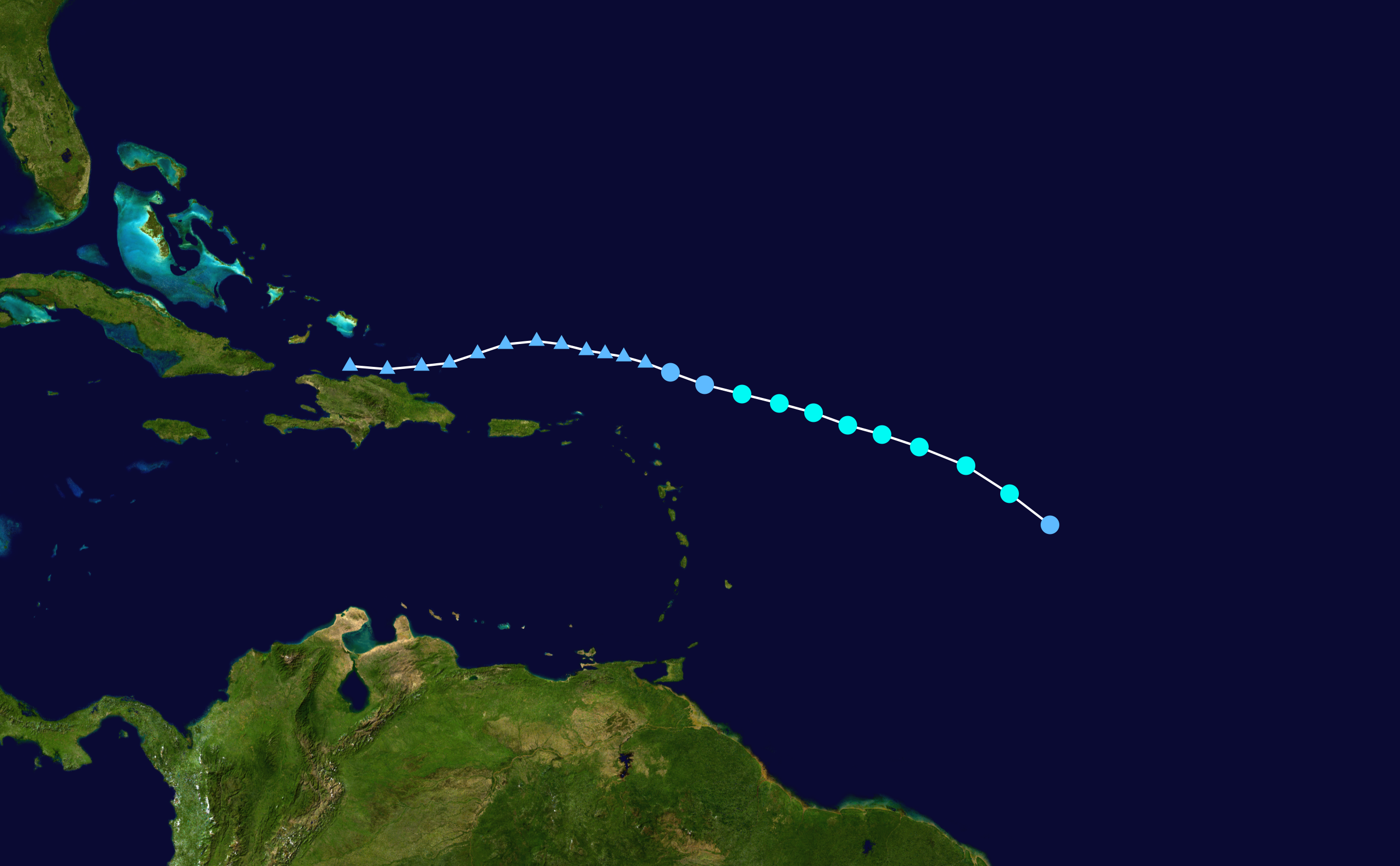 Track map of Tropical Storm Henri of the 2009 Atlantic hurricane season. The points show the location of the storm at 6-hour intervals. The colour represents the storm's maximum sustained wind speeds as classified in the Saffir–Simpson scale (see below), and the shape of the data points represent the nature of the storm, according to the legend below. Saffir–Simpson scale Tropical depression≤38 mph≤62 km/h Category 3111–129 mph178–208 km/h Tropical storm39–73 mph63–118 km/h Category 4130–156 mph209–251 km/h Category 174–95 mph119–153 km/h Category 5≥157 mph≥252 km/h Category 296–110 mph154–177 km/h Unknown Storm type Tropical cyclone Subtropical cyclone Extratropical cyclone / Remnant low / Tropical disturbance / Monsoon depression